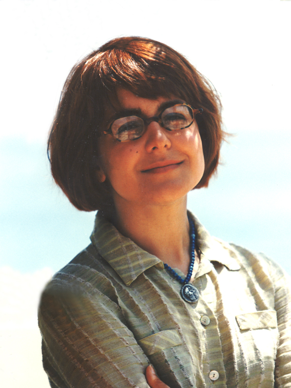 Neslihan Gokdemir